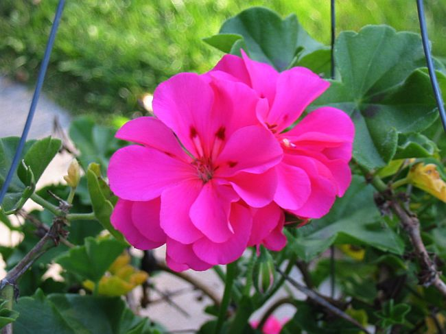 Dunno the kind.